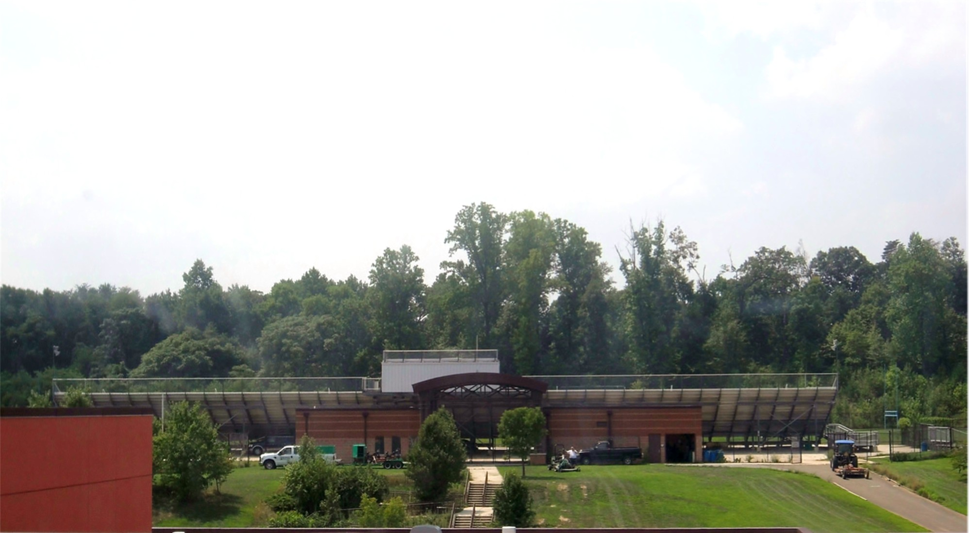 The football/track/soccer stadium at Northwestern High School; taken from the 3rd floor of the A-wing.